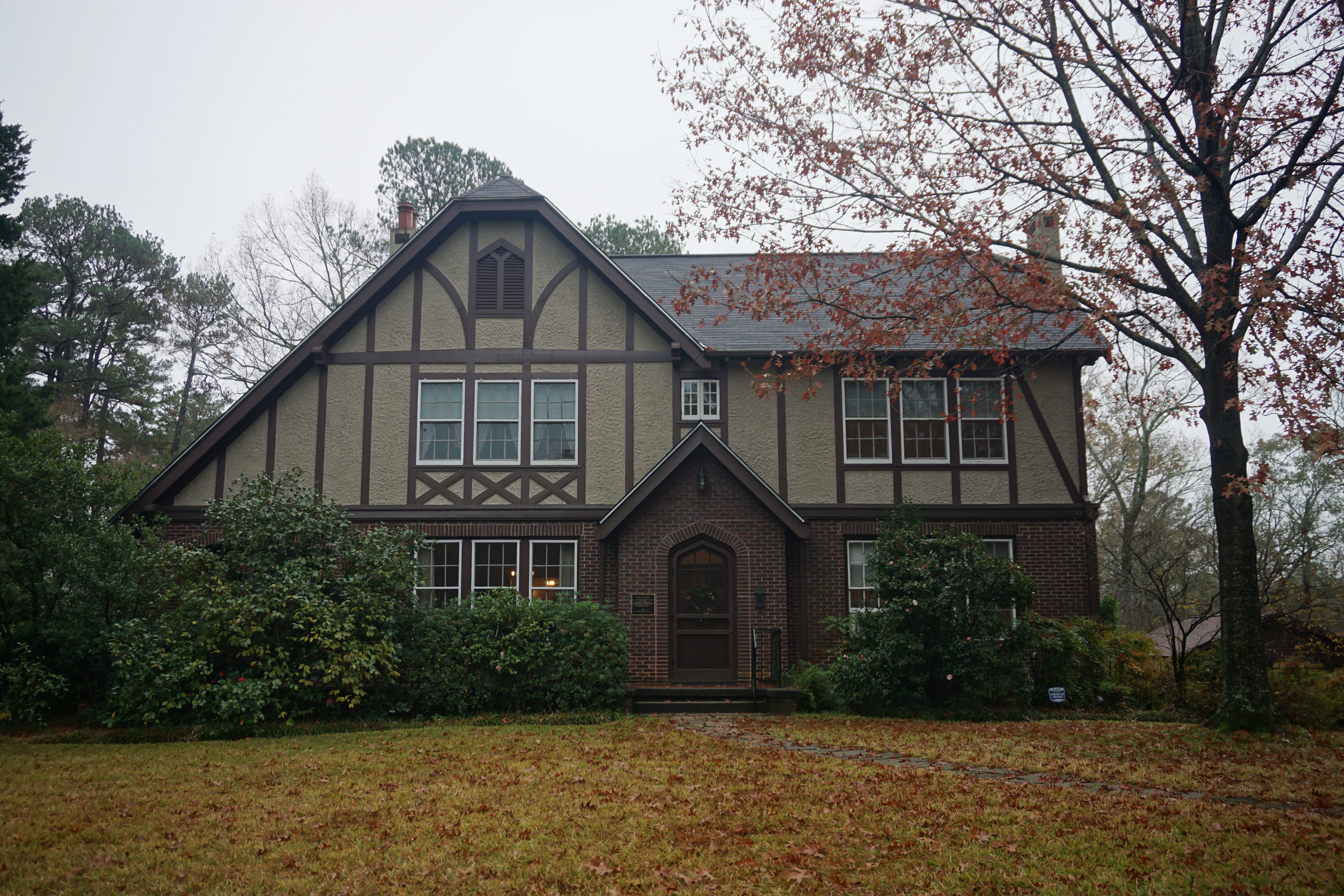 The Eudora Welty House in Jackson, Mississippi (United States).